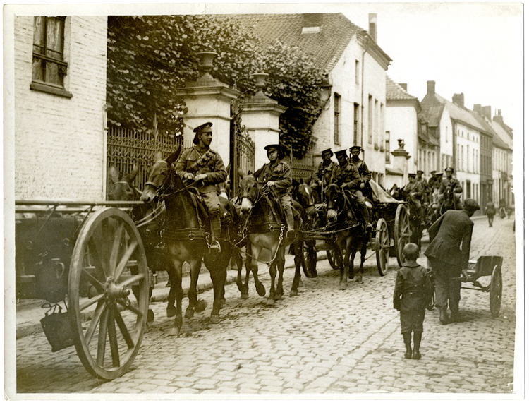 A battery on the march [Merville, France].